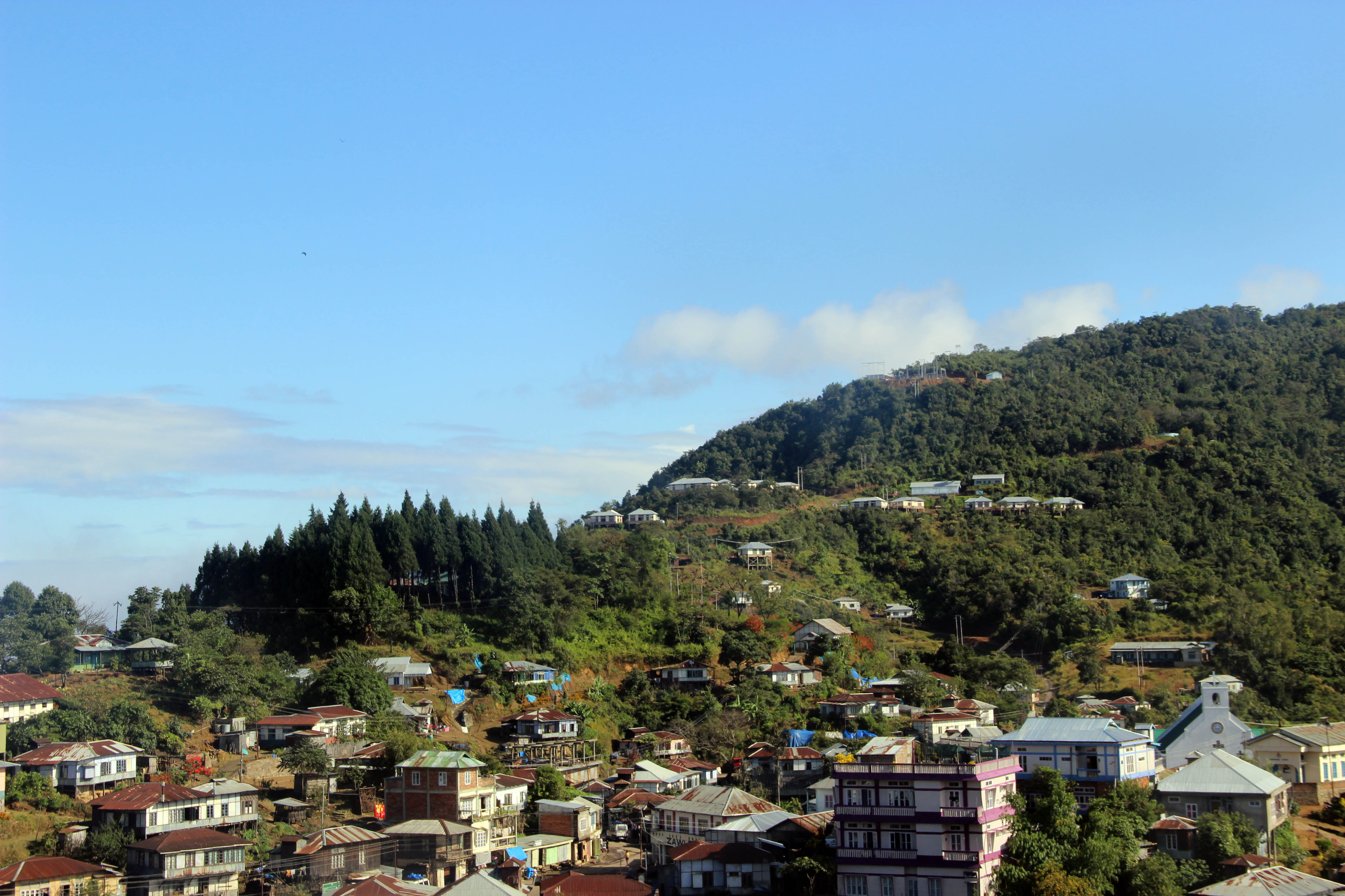 A prominent village in the eastern part of Mizoram, India